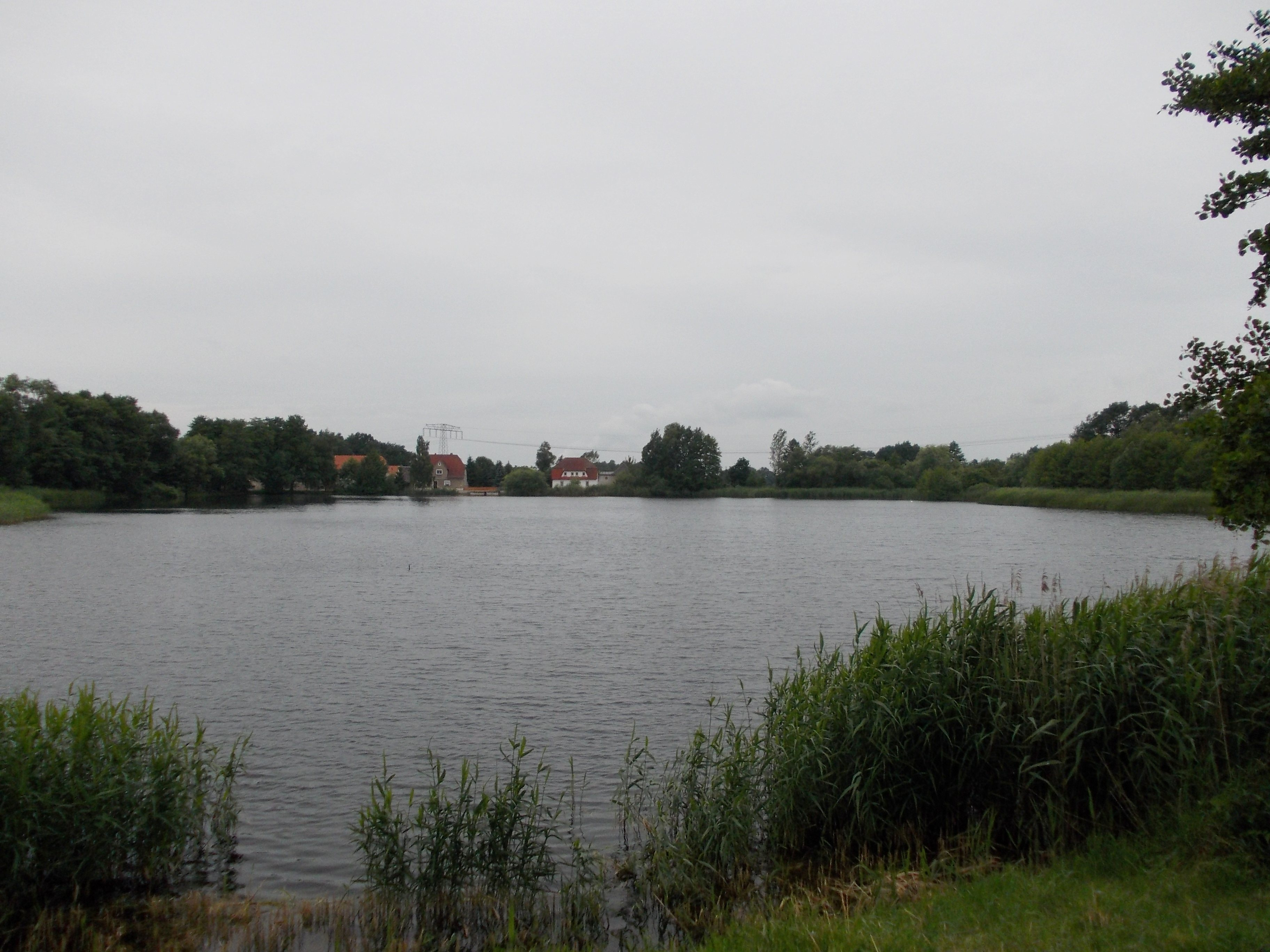 Mühlteich (mill pond) in Rohrbach (Belgershain, Leipzig district, Saxony)